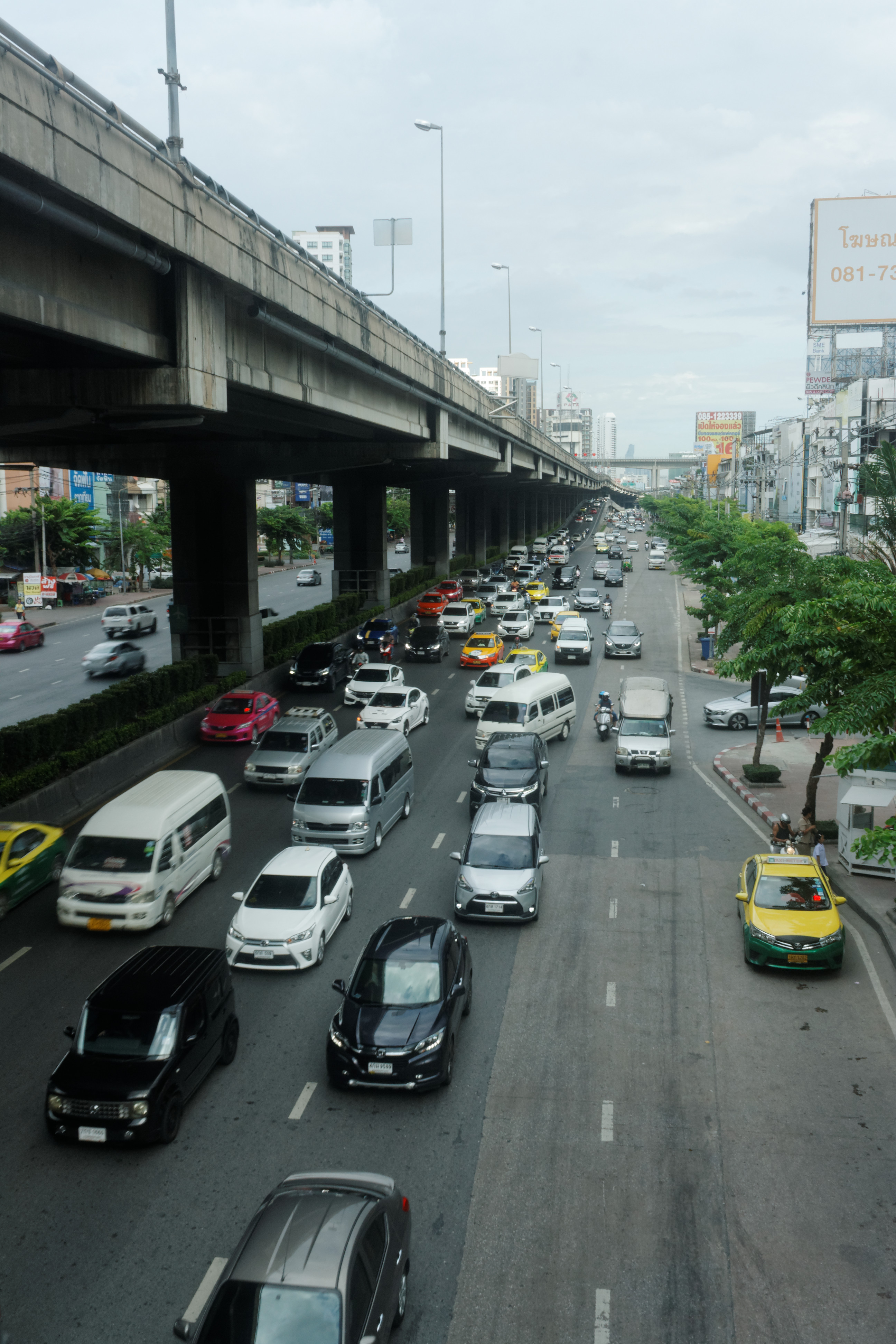 Borommaratchachonnani Road from the pedestrian bridge at the Tesco Lotus